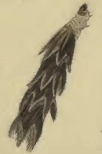 Stainton’s Natural History of the Tineina (1855–1873): Thiotricha subocellea larval case